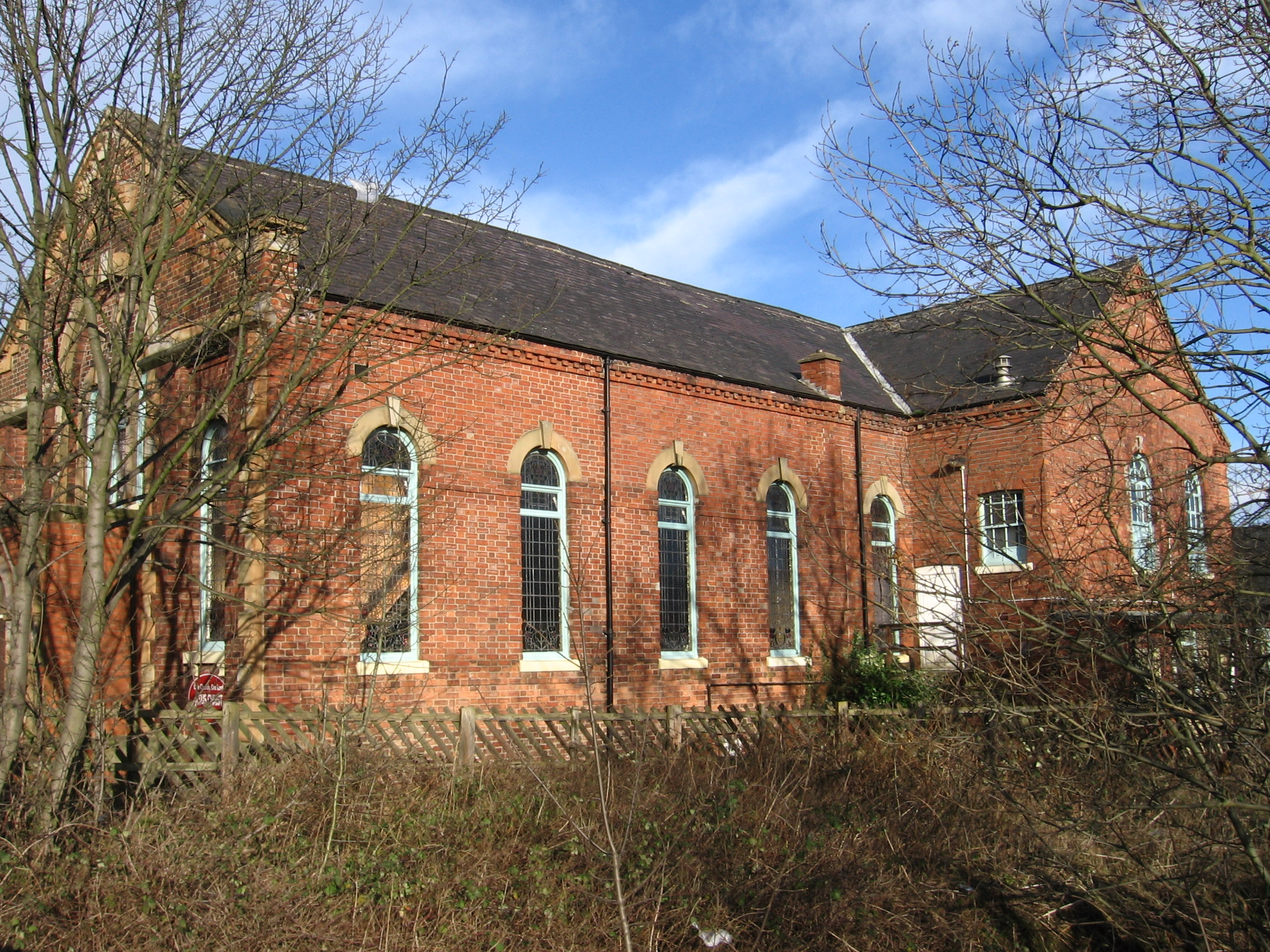 Clowne - North Street Methodist Chapel